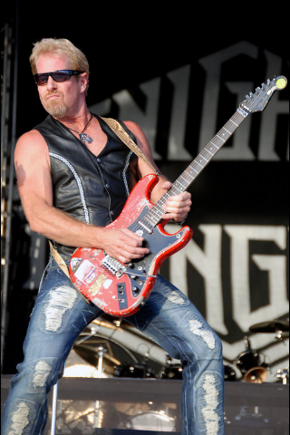 Brad Gillis Live